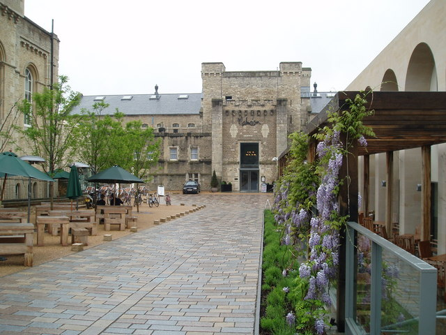 Beautiful conversion of the Old Oxford Prison into a stunning new Hotel (Malmaison) with the cells having been converted to guest rooms.